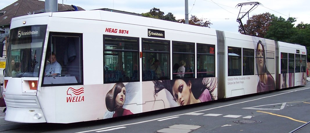 HEAG Tram showing Wella Ad in Darmstadt, Germany. LHB ST13 tram (#9874), built in 1998. My own photo from 8 August 2005 Clipped version from Image:Heag_9874_in_darmstadt_100_0923.jpg